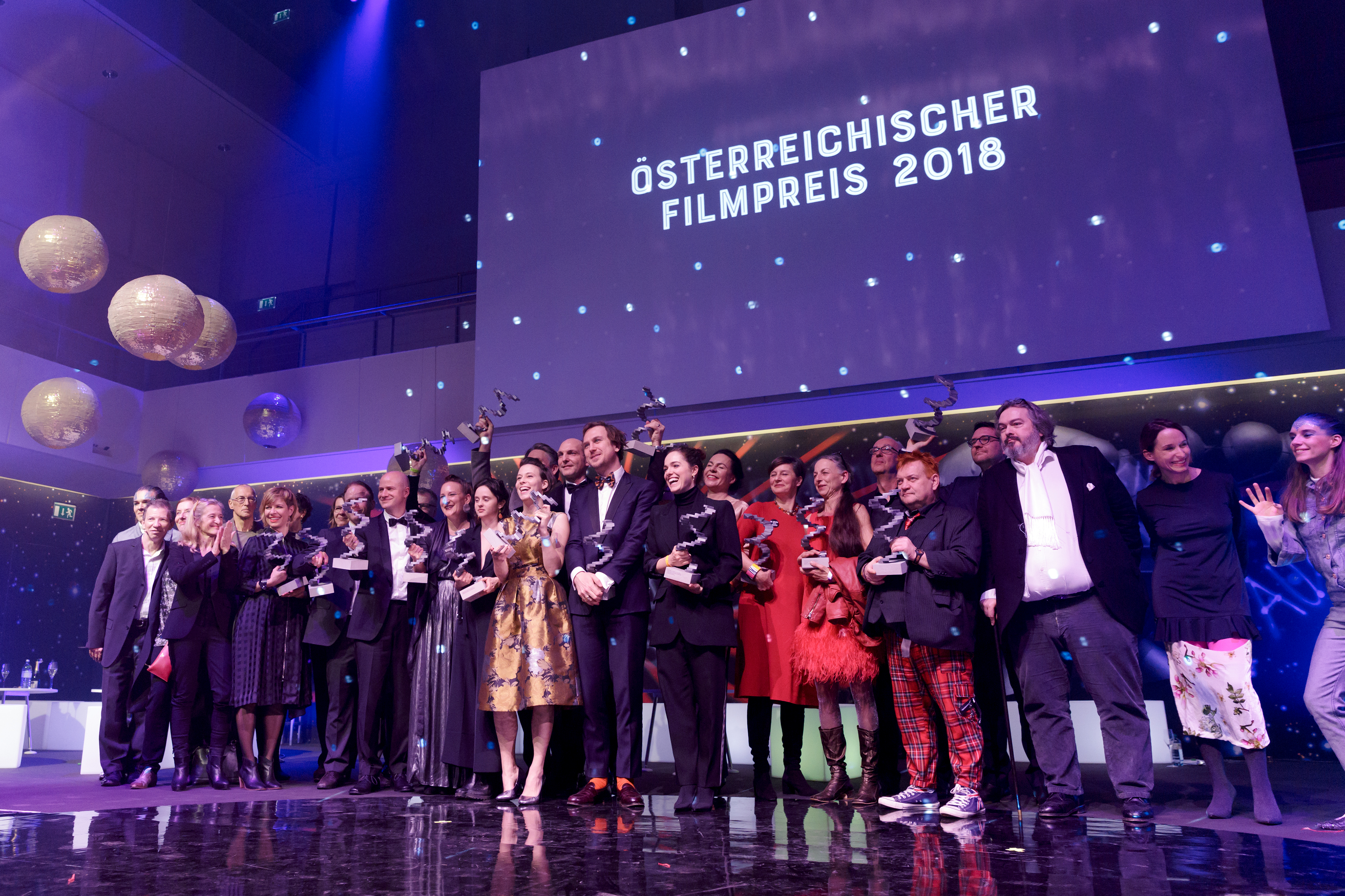 Awardees of the Austrian Film Awards 2018 (Auditorium Grafenegg at Grafenegg Castle, Lower Austria,Austria).